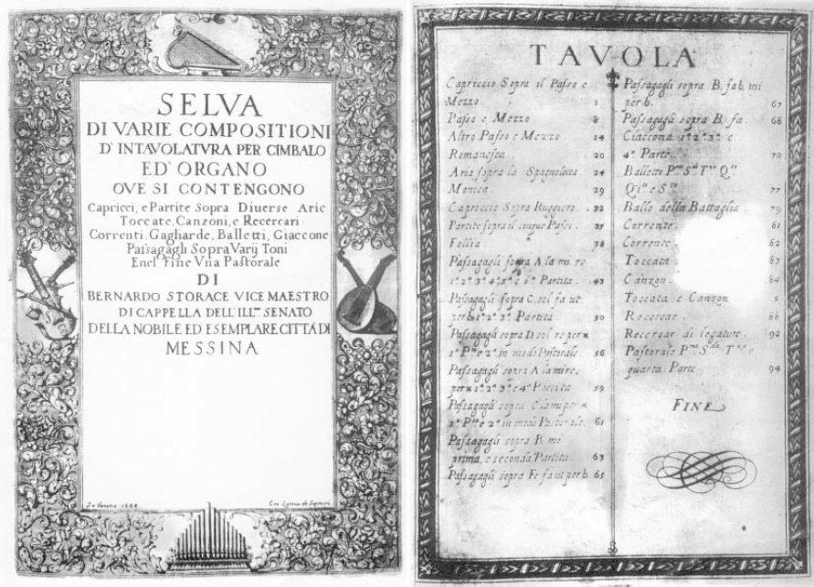 Cover and table of contents of a 1664 music collection by Bernardo Storace (fl. mid-17th century). Public domain because of its age.